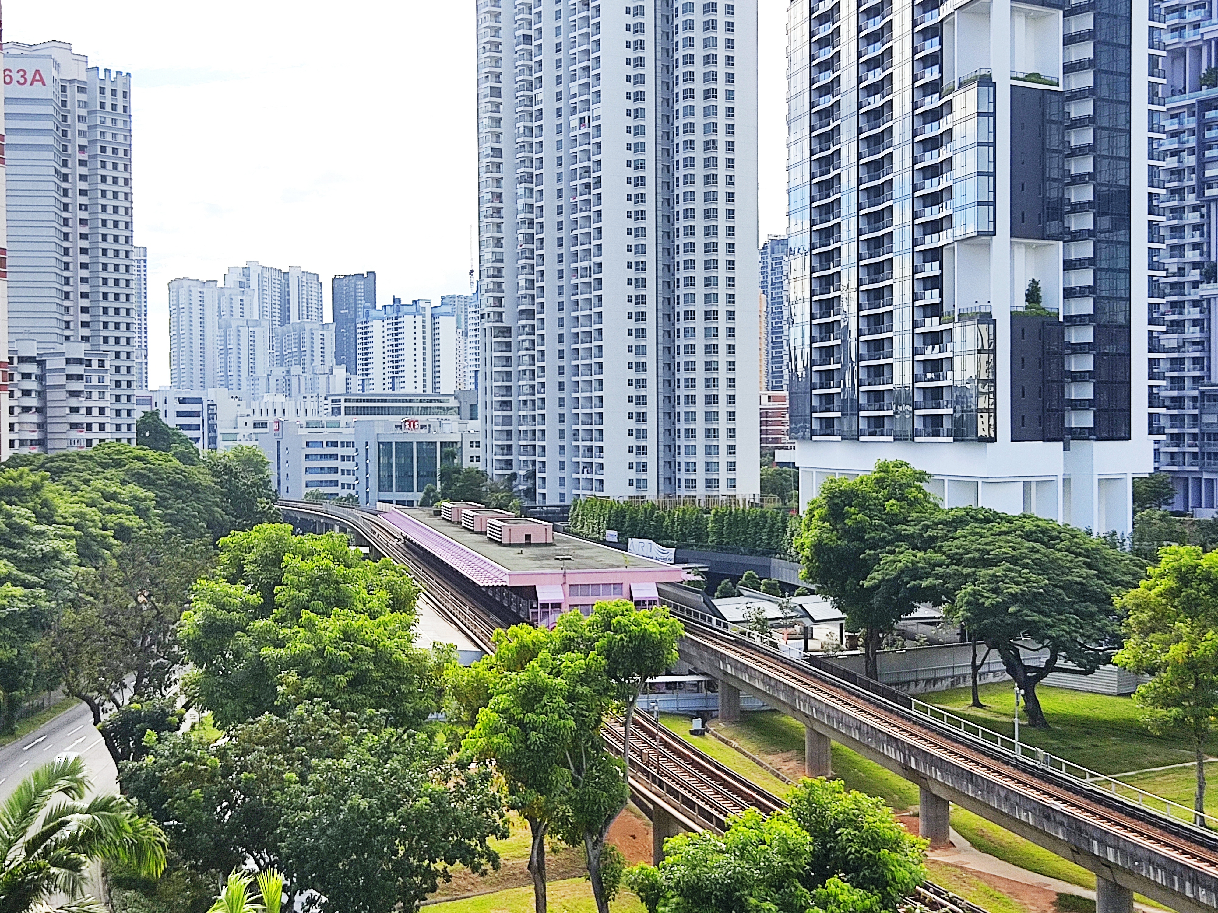 NS18 Redhill